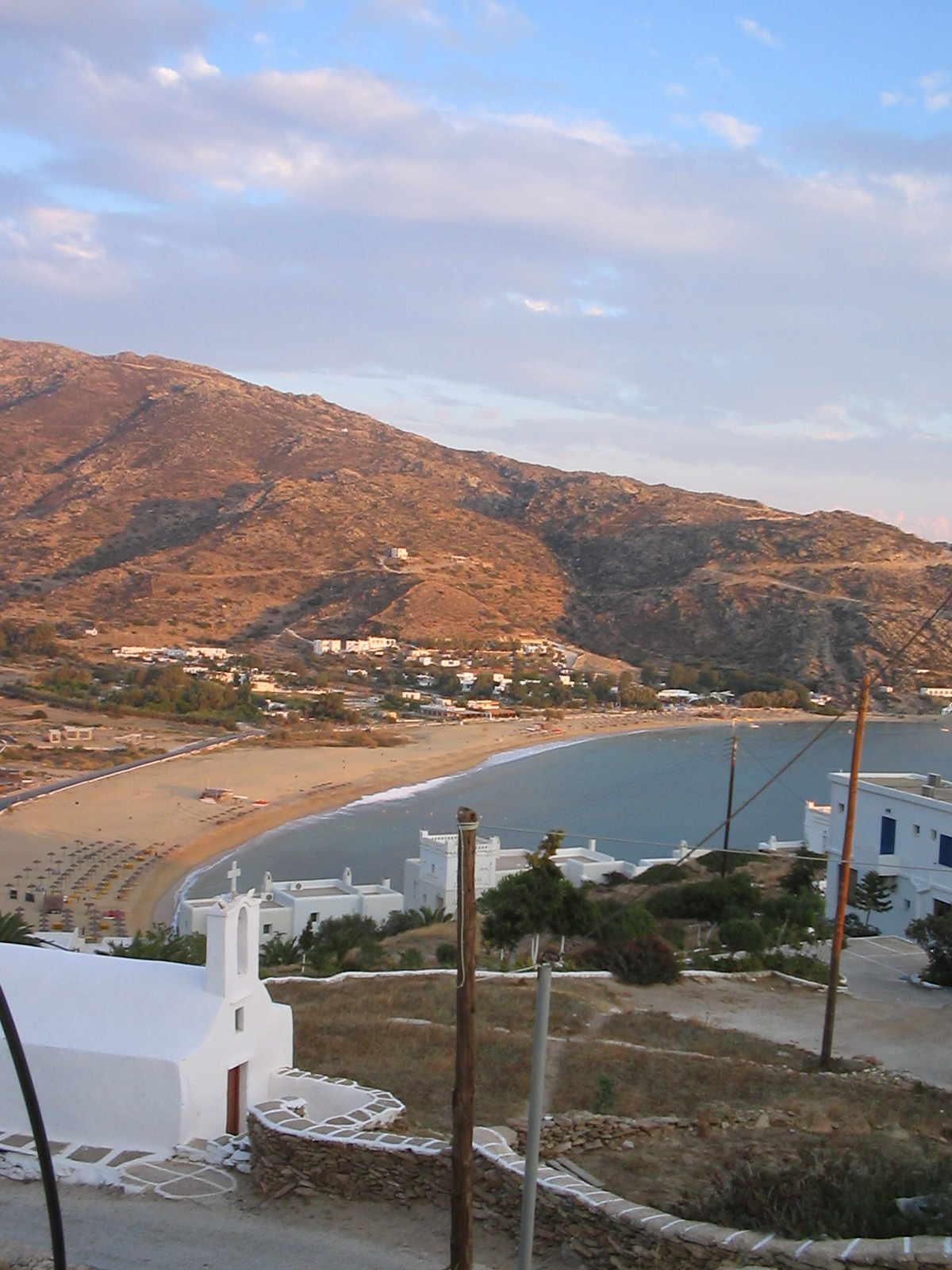 Milopotas Beach, Ios, Cyclades, Greece